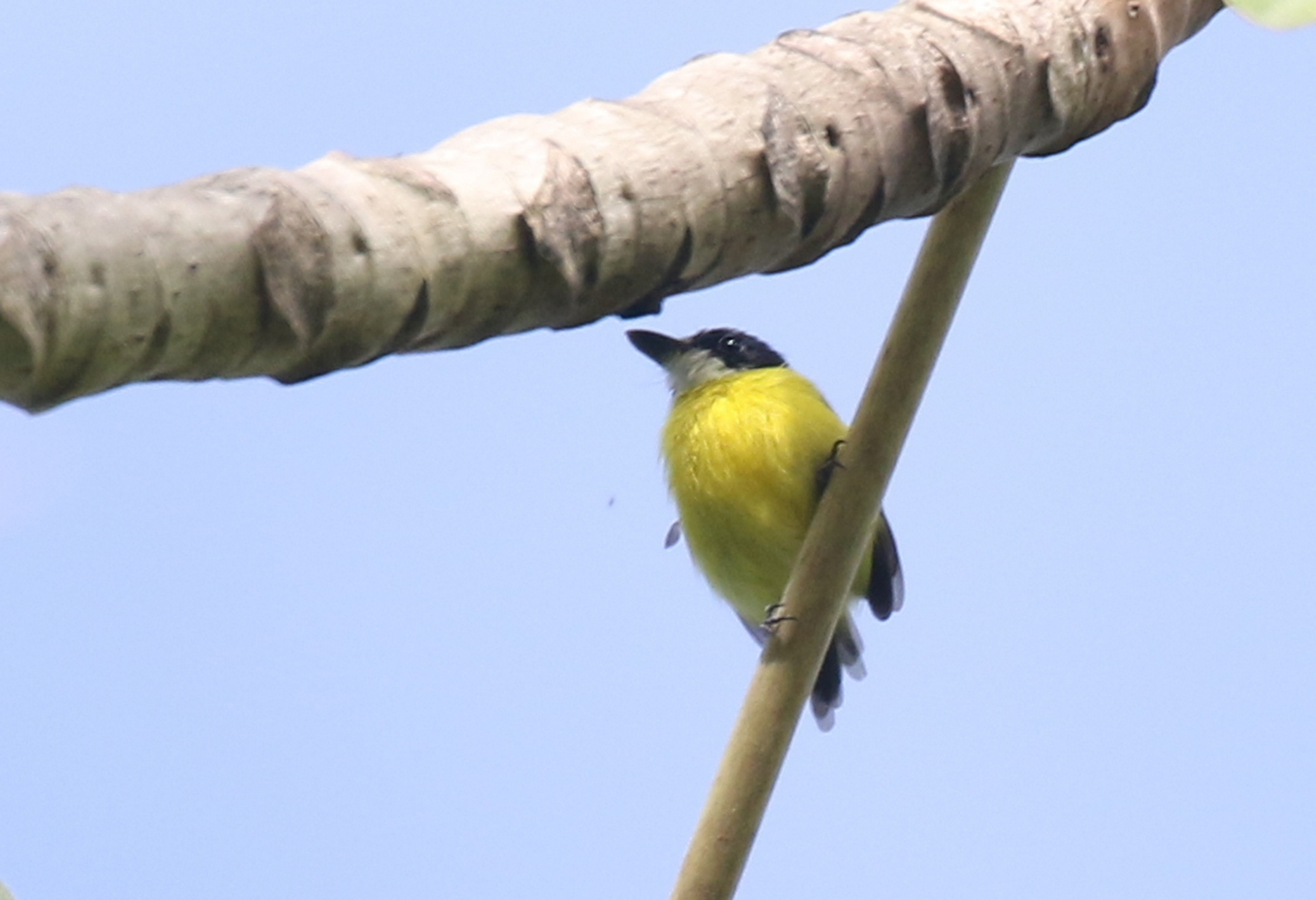 Canopy Camp - Darien, Panama